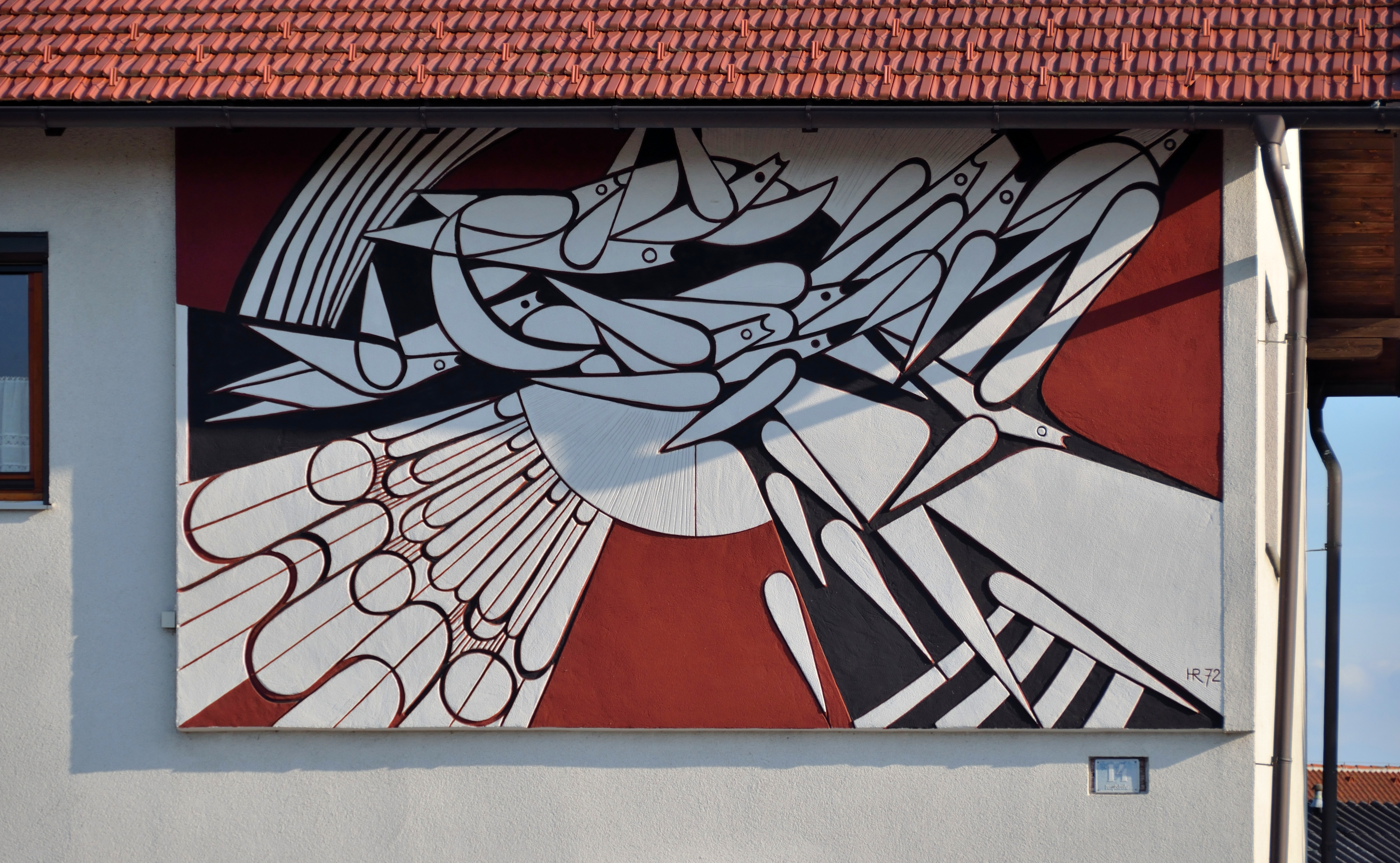 Ein Sgraffito (HR 72) on house Hauptstraße 14 in Kapelln, Lower Austria. Same HR as File:St. Andräer Ortsstraße 29 sgraffito.jpg?